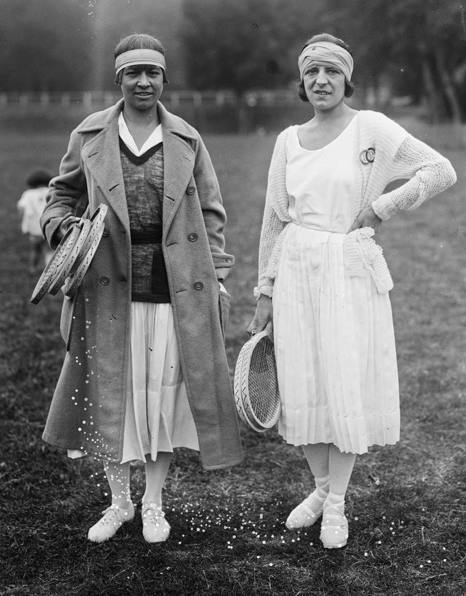 Molla Mallory and Suzanne Lenglen at the 1921 World Hard Court Championships